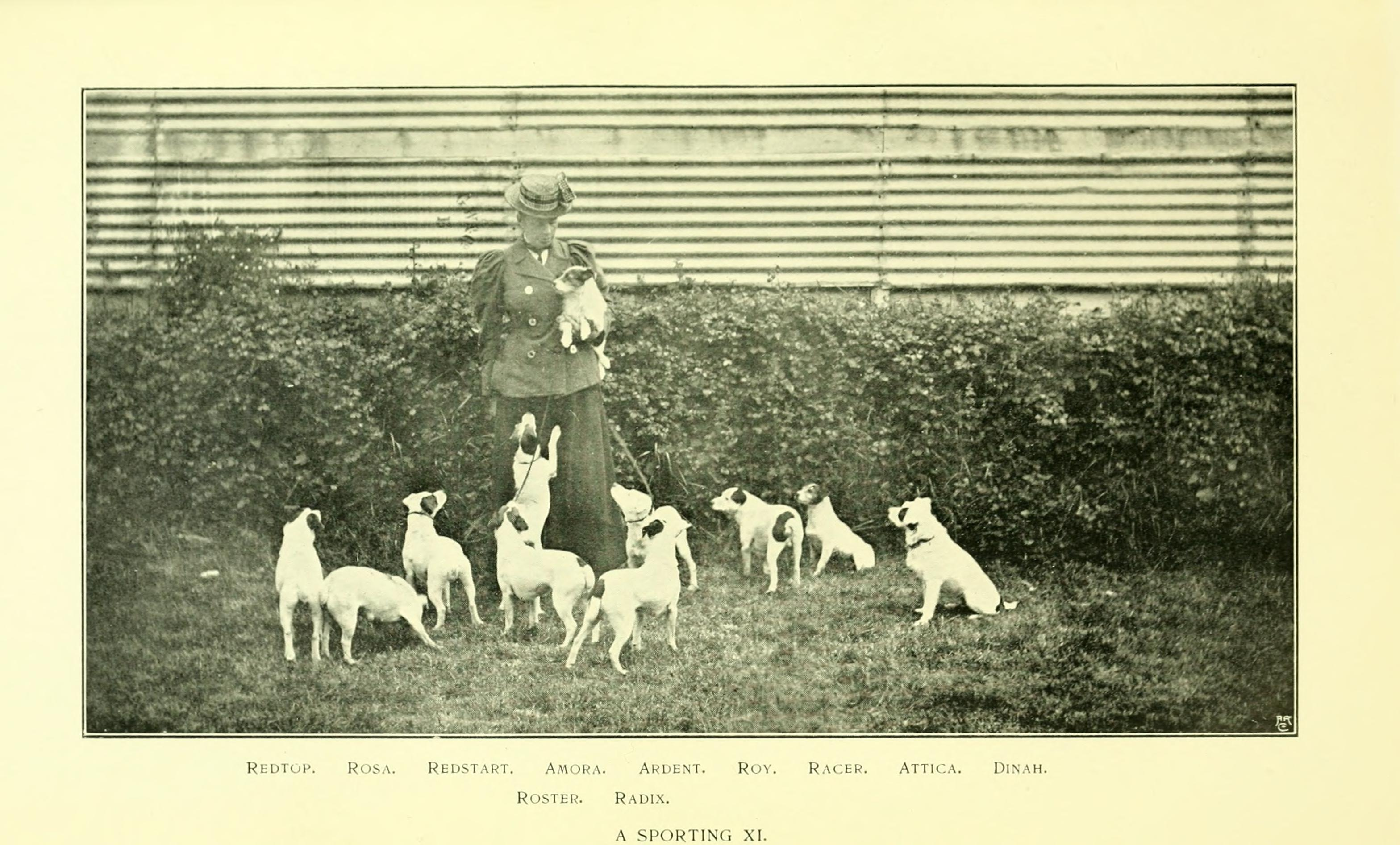 With hound and terrier in the field : hunting reminiscences / Alys F. Serrell ; edited by Frances Slaughter.